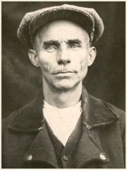 Dimitar Iliev Budzhov from Shesteovo